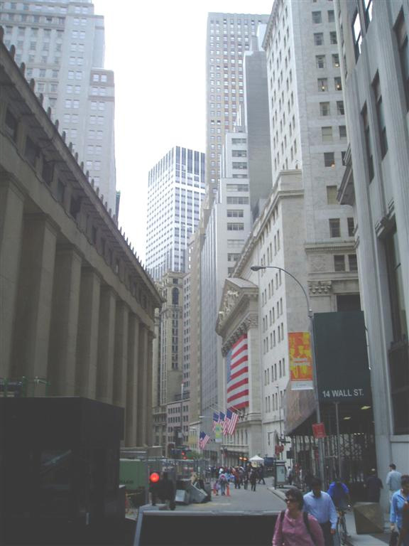 Picture taken by BigMac on September 9, 2005. This is actually Nassau Street and Broad street. Photo was taken from the intersection of Nassau & Pine looking south across Wall.